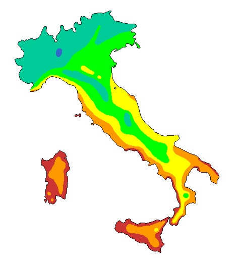 Map of yearly sunshine hours in Italy.